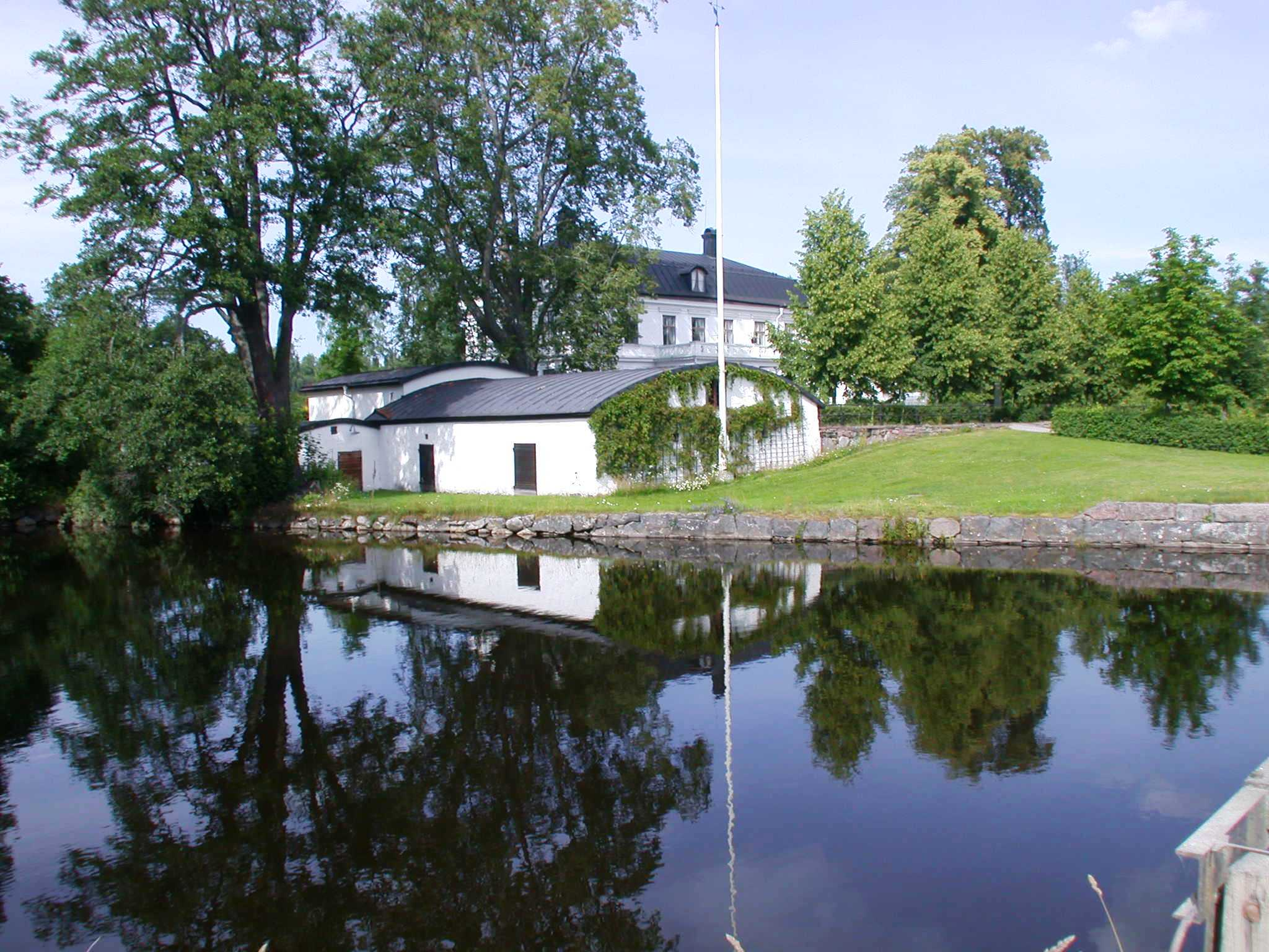 The manor (main building), Mackmyra Bruk and destillery, Gävle